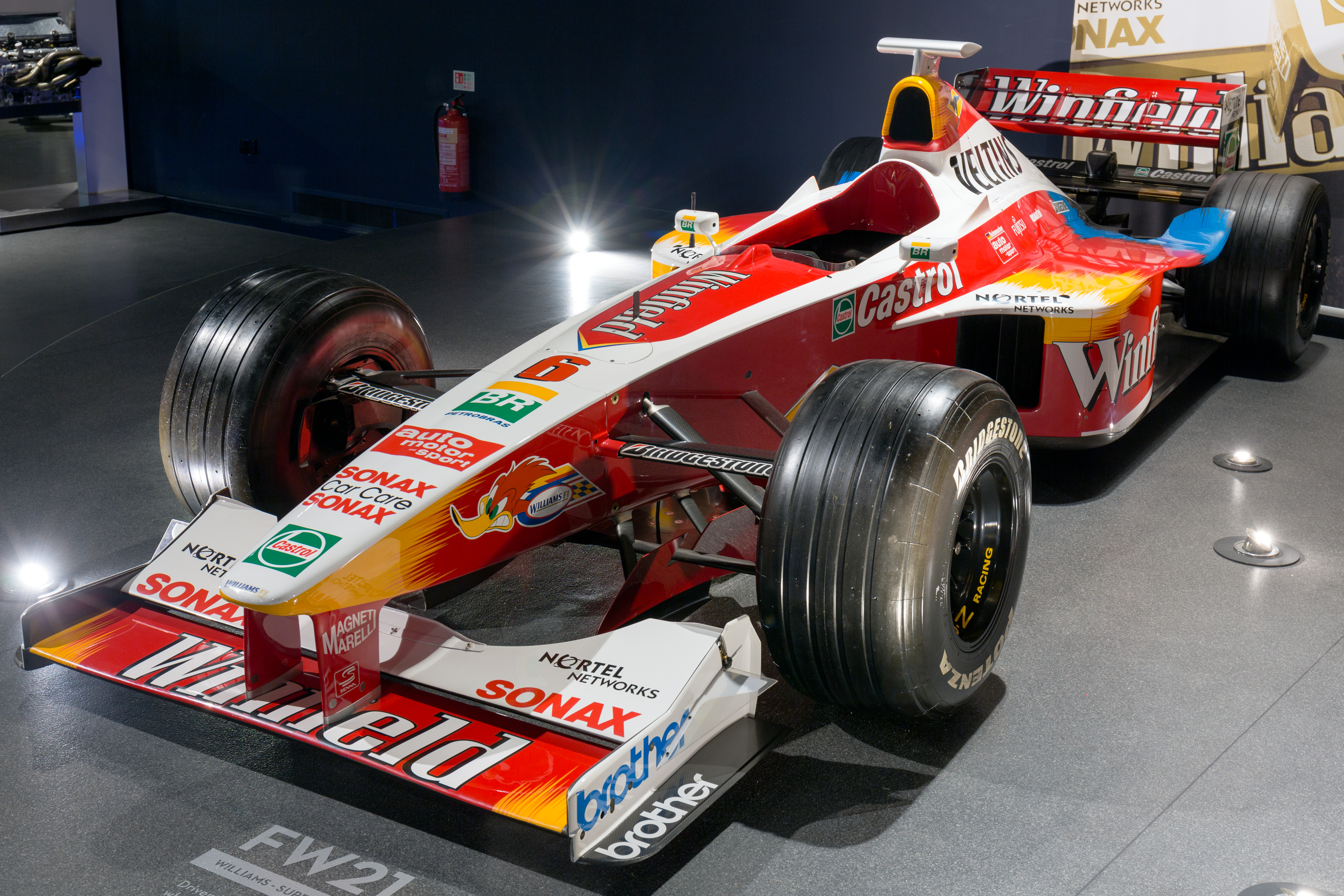 Williams Conference Centre (Grove): Williams FW21 of Ralf Schumacher